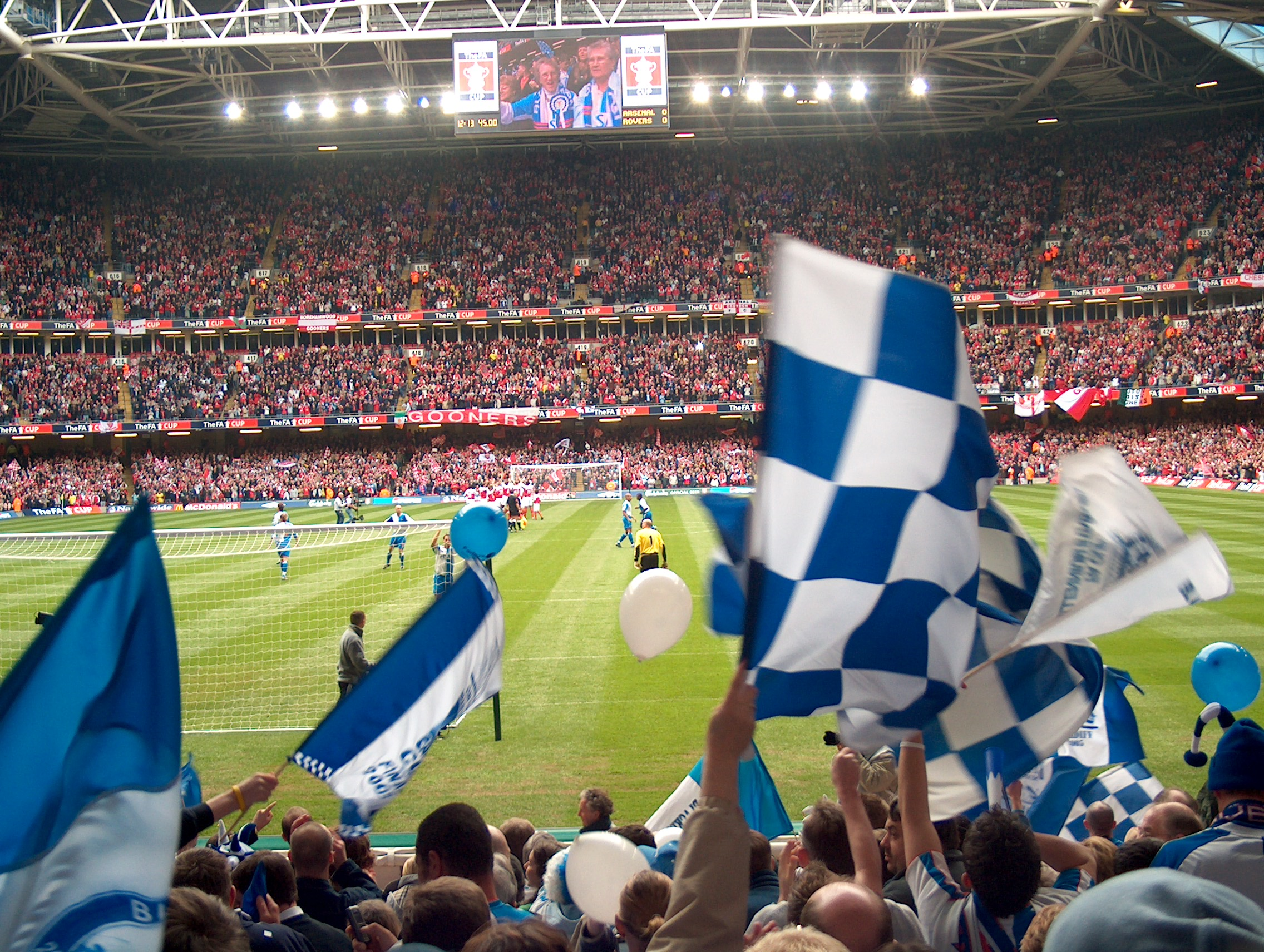 A match at the Millennium Stadium While Wembley was being rebuilt, this was the UK's top stadium. Here it is hosting the FA Cup Semi-final between Arsenal and Blackburn Rovers.